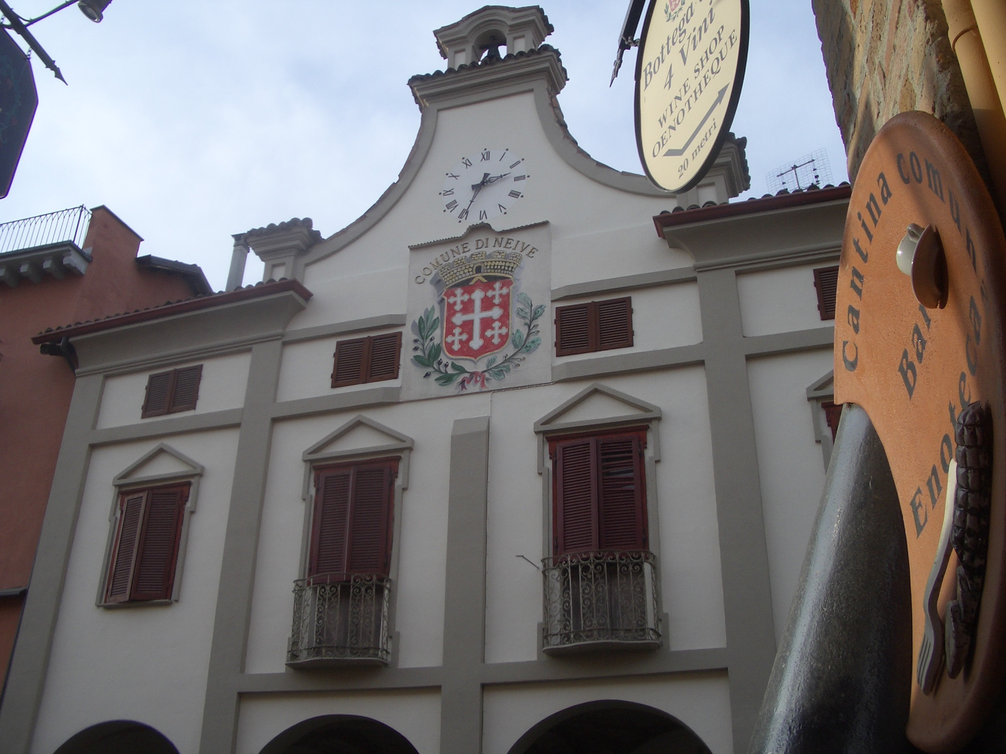 The former Town Hall, Neive, Cuneo, Italy